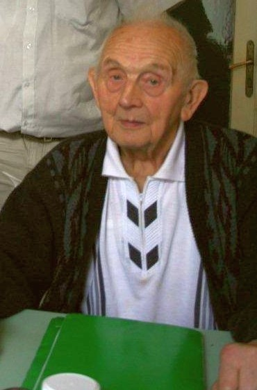 Lt. Jan Jelínek